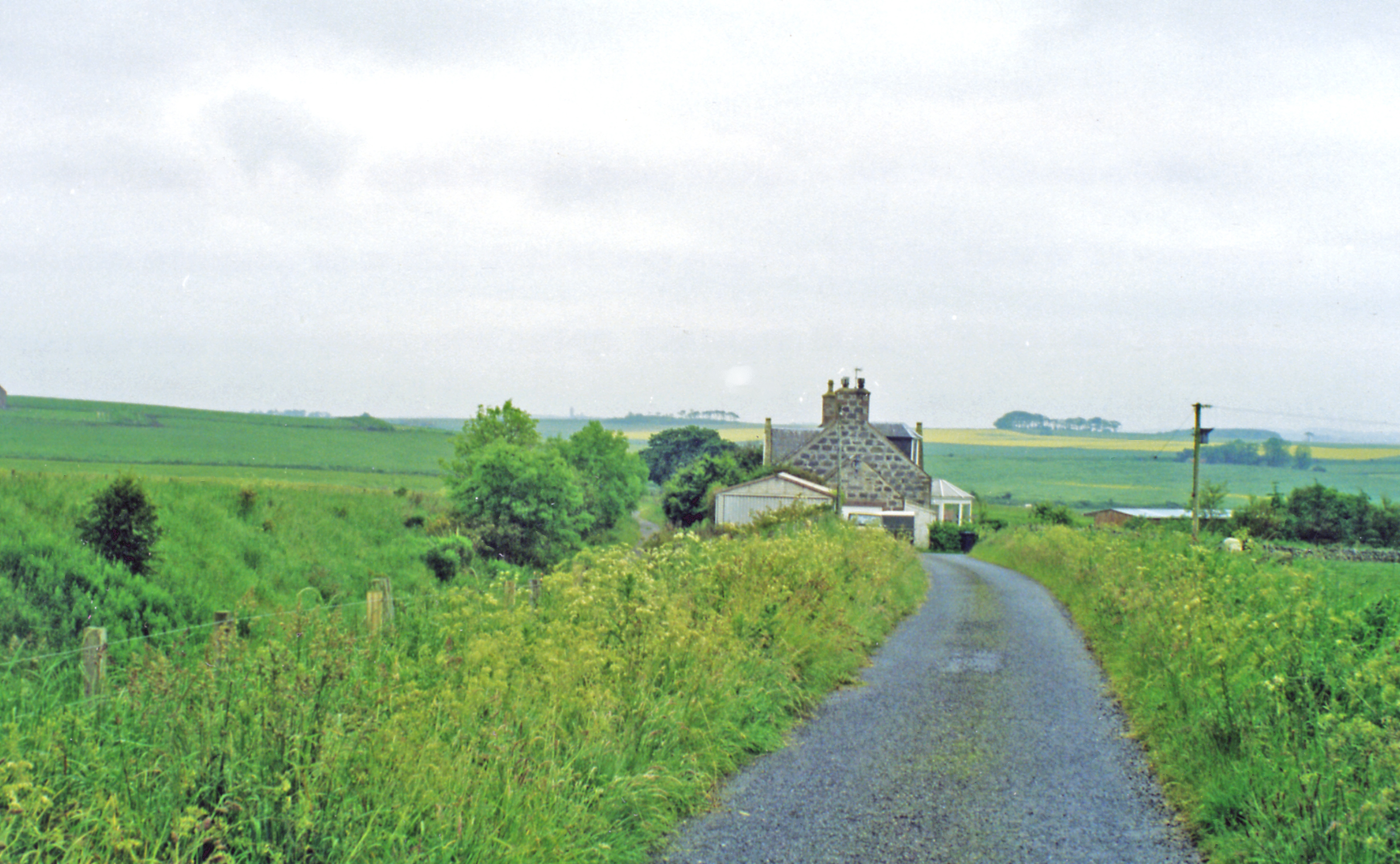 Former Esslemont station, 1997. View southward, towards Dyce and Aberdeen: ex-GNSR (Aberdeen) - Dyce- Maud - Fraserburgh line. The station was closed 15/9/52, but passenger services continued to Fraserburgh until 4/10/65, goods until 5/10/79.